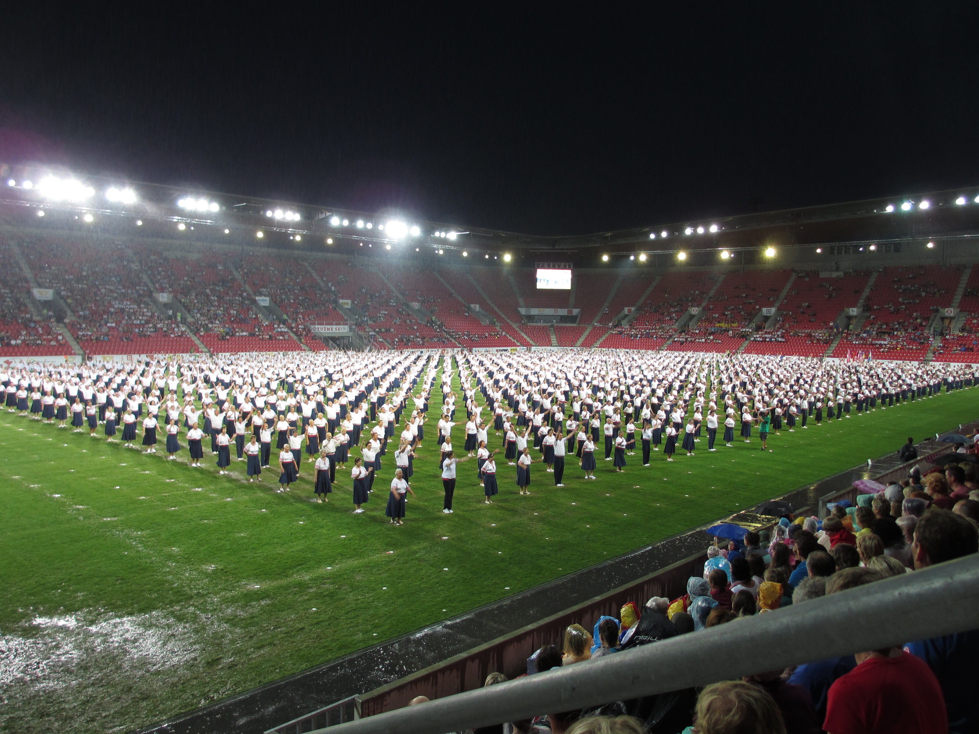 Gathering of Czech sport club Sokol called "XV. sokolský slet", Stadion Eden (called in 2012 Synot Tip Arena), Prague, Czech Republic